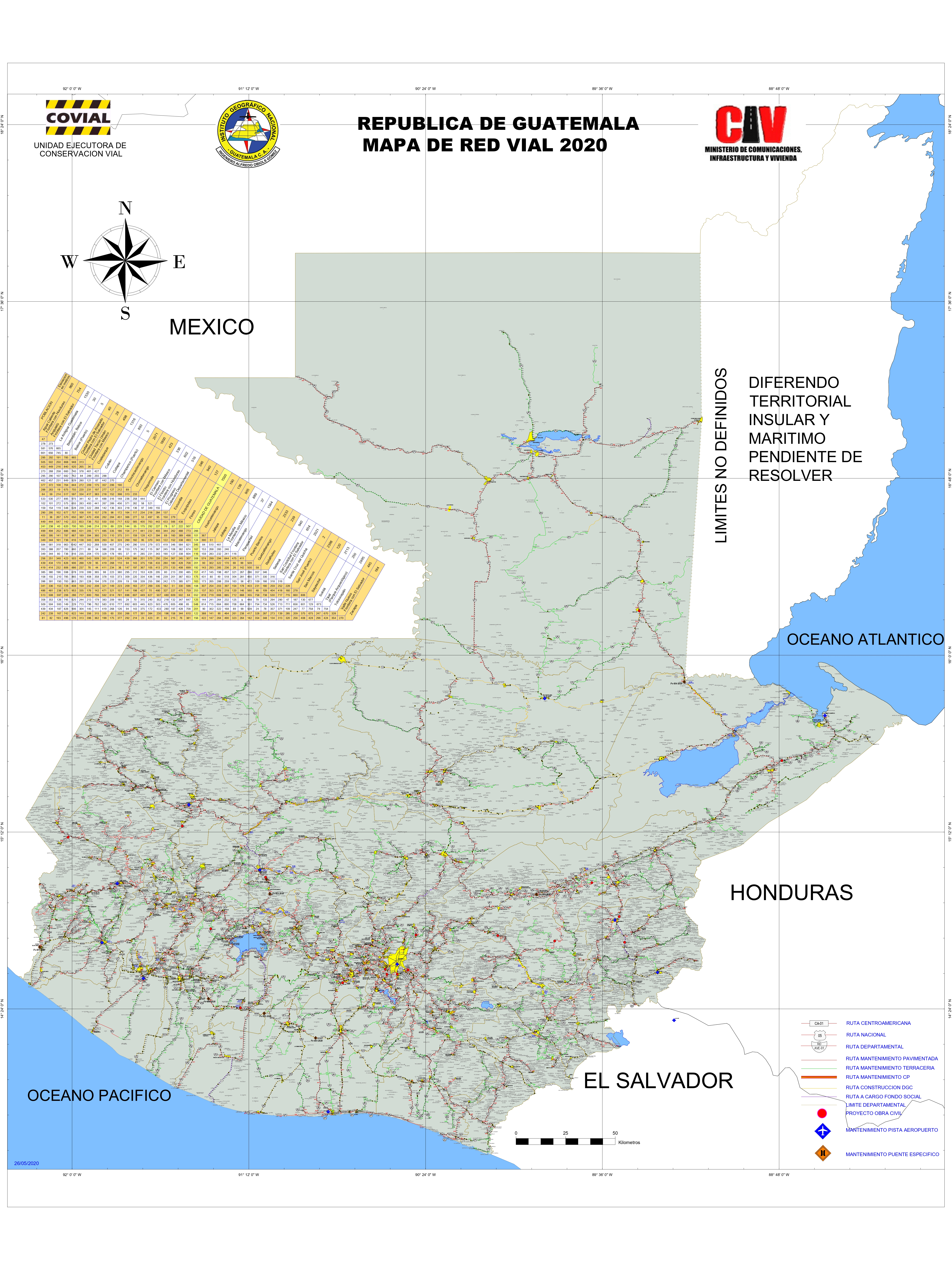 Guatemala Transportation Map 2020